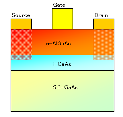 Structure of Well-Known Basic High Electron Mobility Transisotr (HEMT)